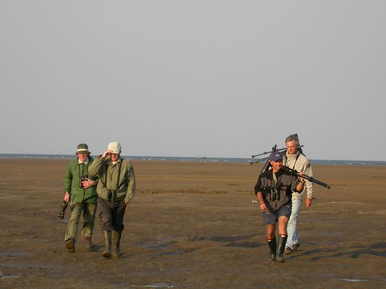 A UK team taken part in 2005 beidaihe international bird race.